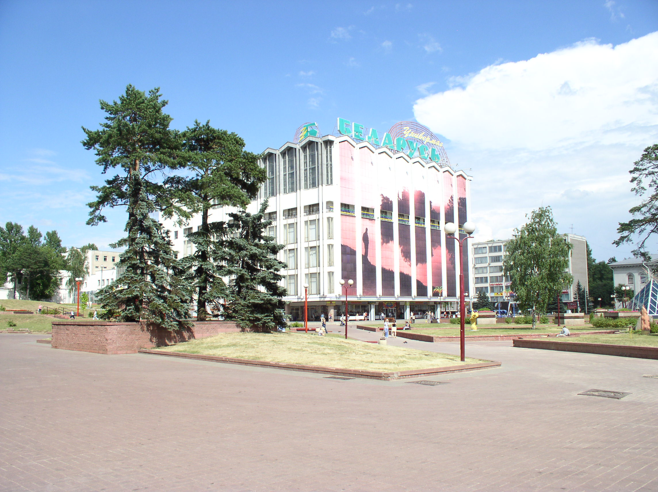 "Belarus" General Store, Minsk, Belarus.